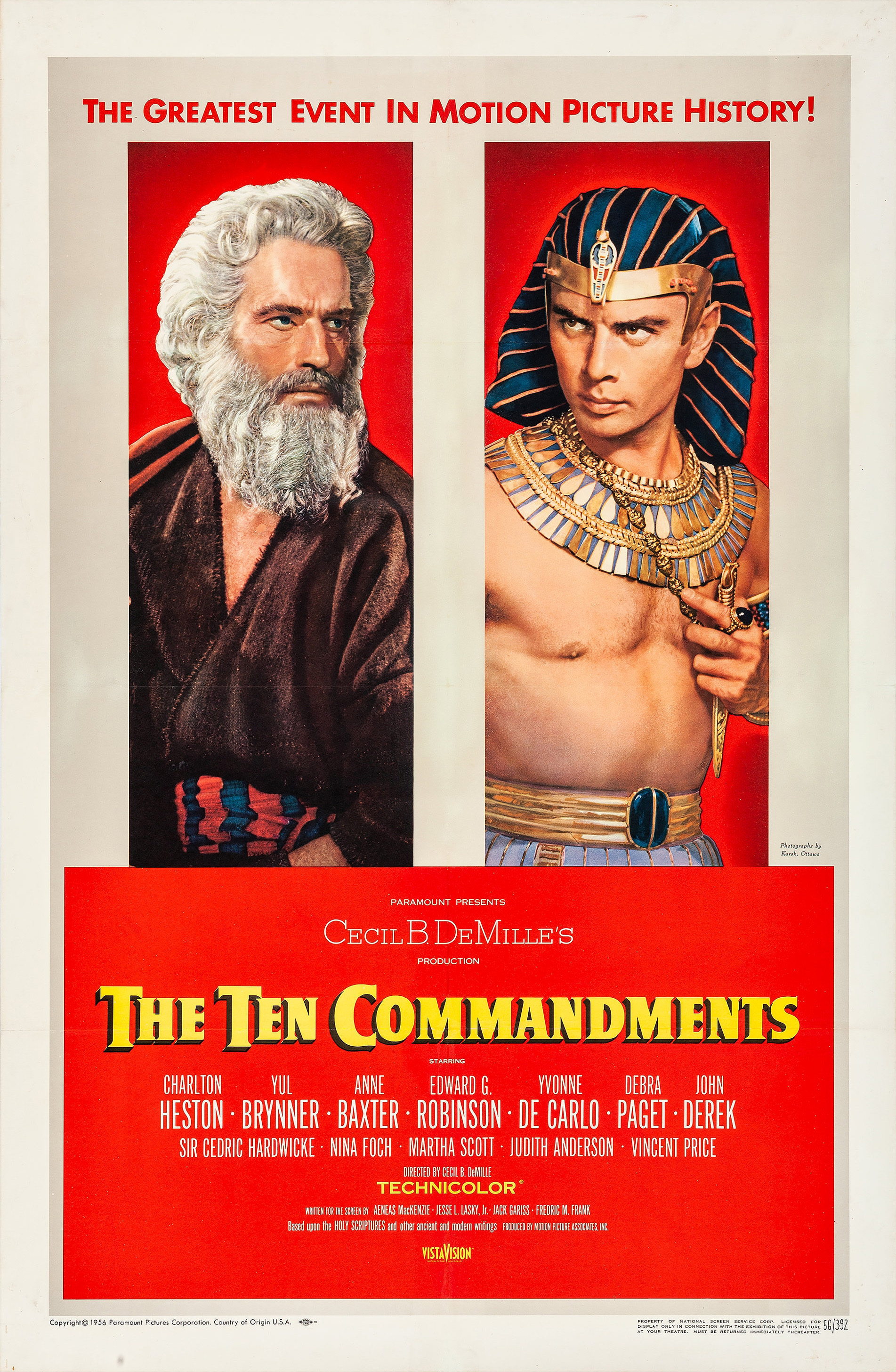 Poster for the American theatrical run of the 1956 film The Ten Commandments.